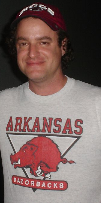 Matt Besser at Upright Citizens Brigade in Texas